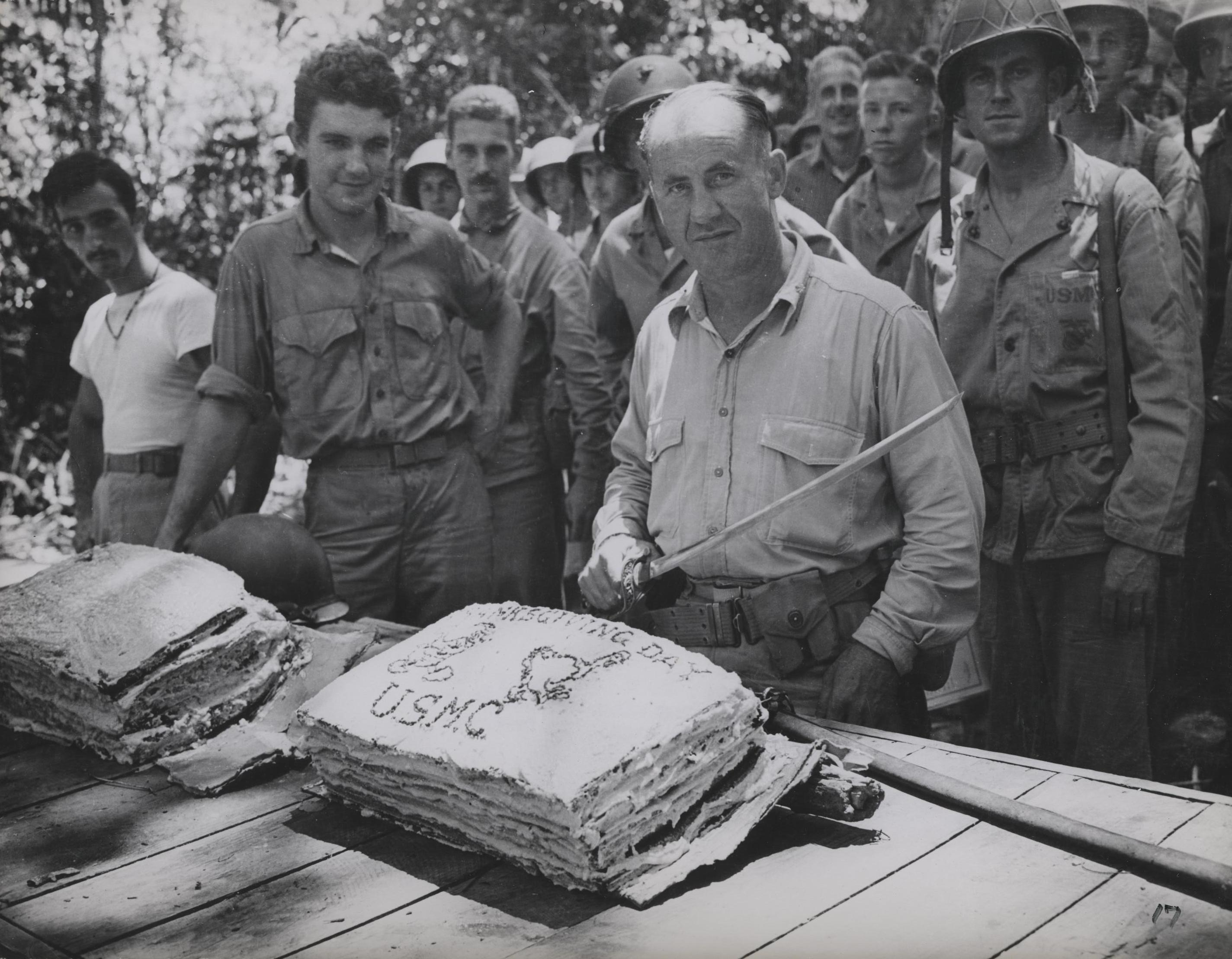 "Thanksgiving Cake-Lt. Colonel W.W. Stickney, the commanding officer, cuts a Thanksgiving cake with a Japanese officer's sword at Guadalcanal, as hungry Leathernecks look on." From the Photograph Collection (COLL/3948), Marine Corps Archives & Special Collections OFFICIAL USMC PHOTOGRAPH